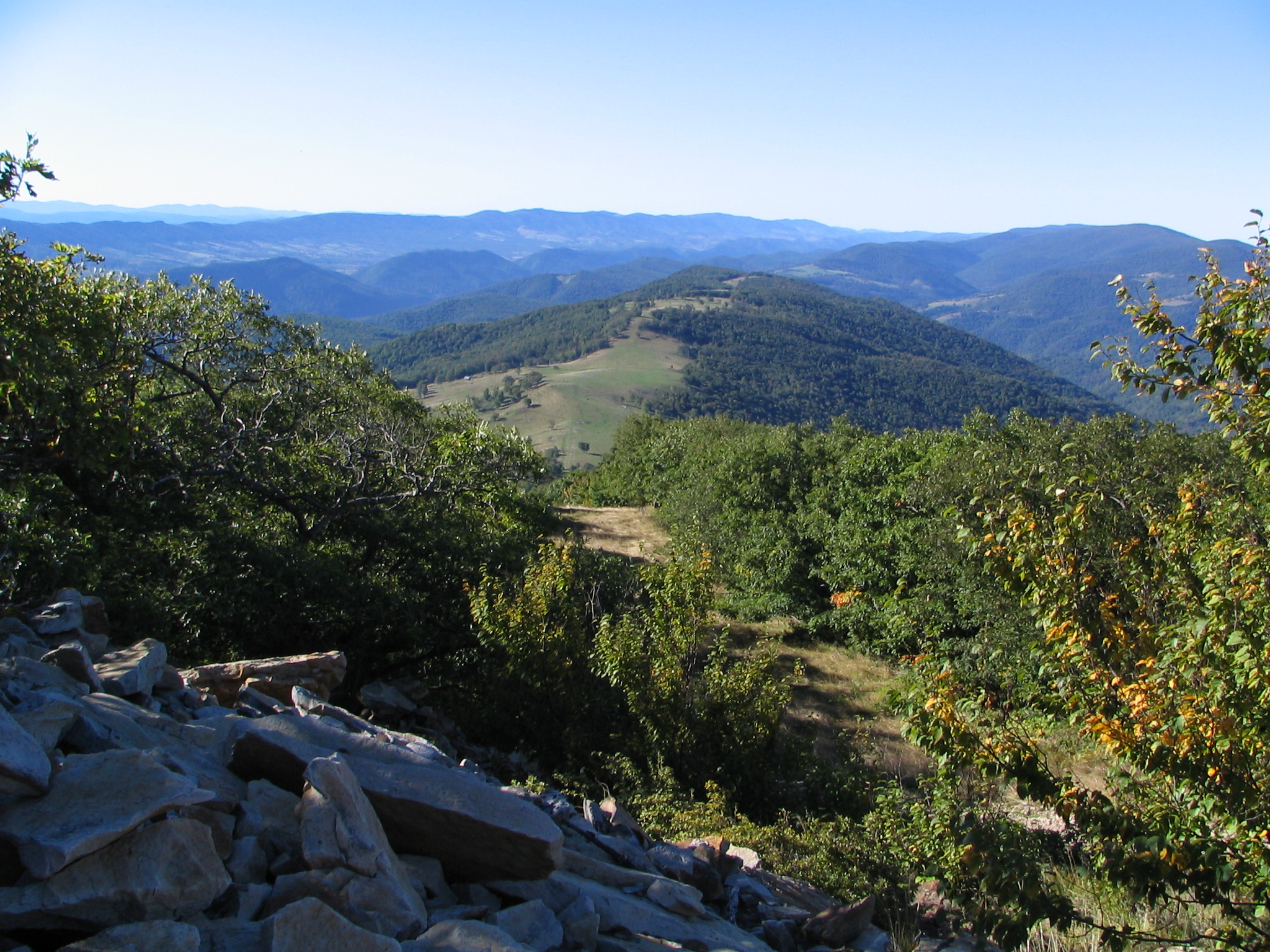 View from within Roaring Plains Wilderness, West Virginia, USA